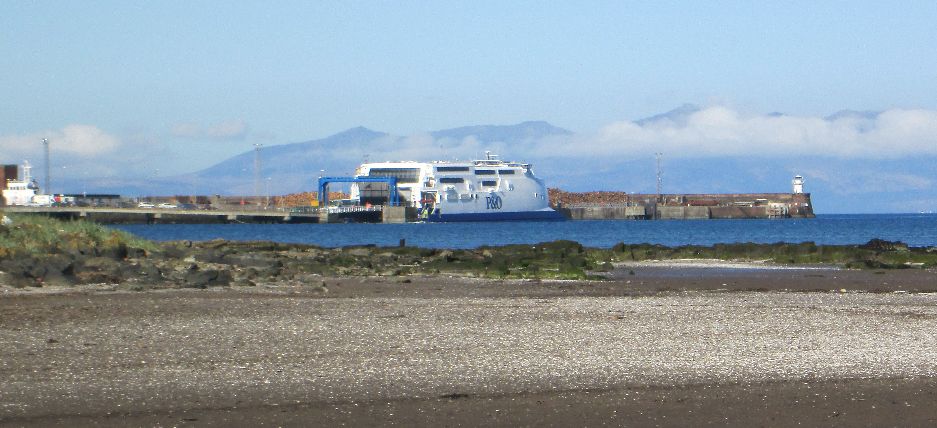 Troon harbour seen over the North Sands and Pan Rocks, with HSC Express at the P&O Ferries terminal, and the Isle of Arran in the background.